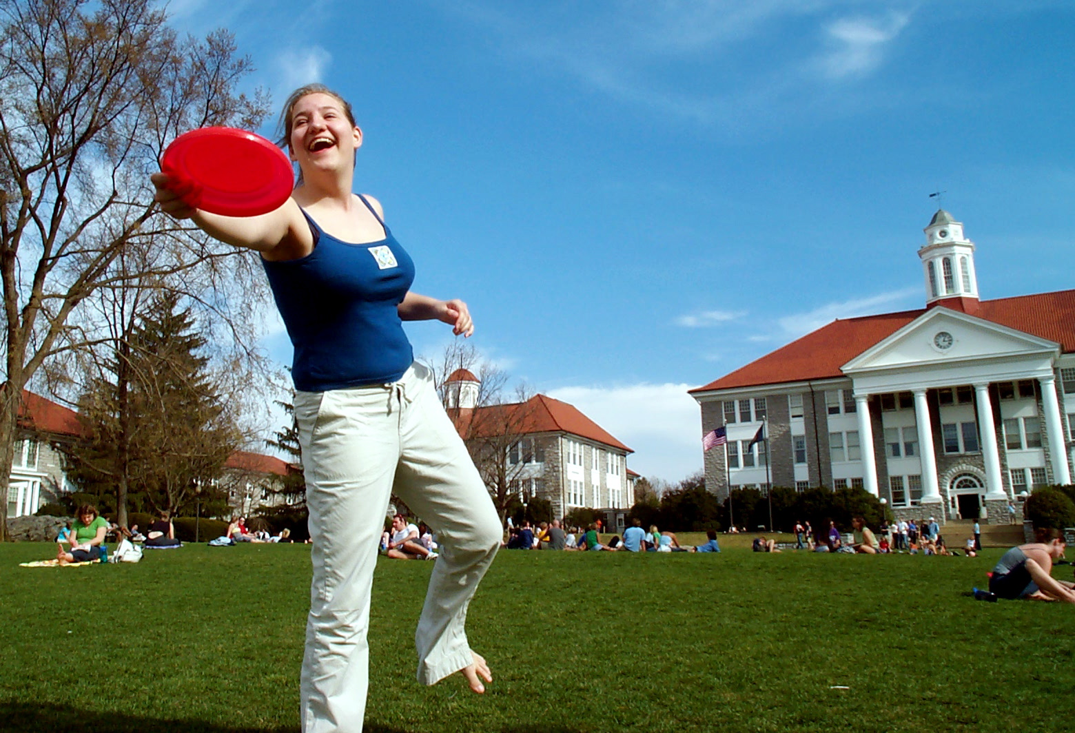 Lydia's good at this stuff. JMU Quad, Harrisonburg VA